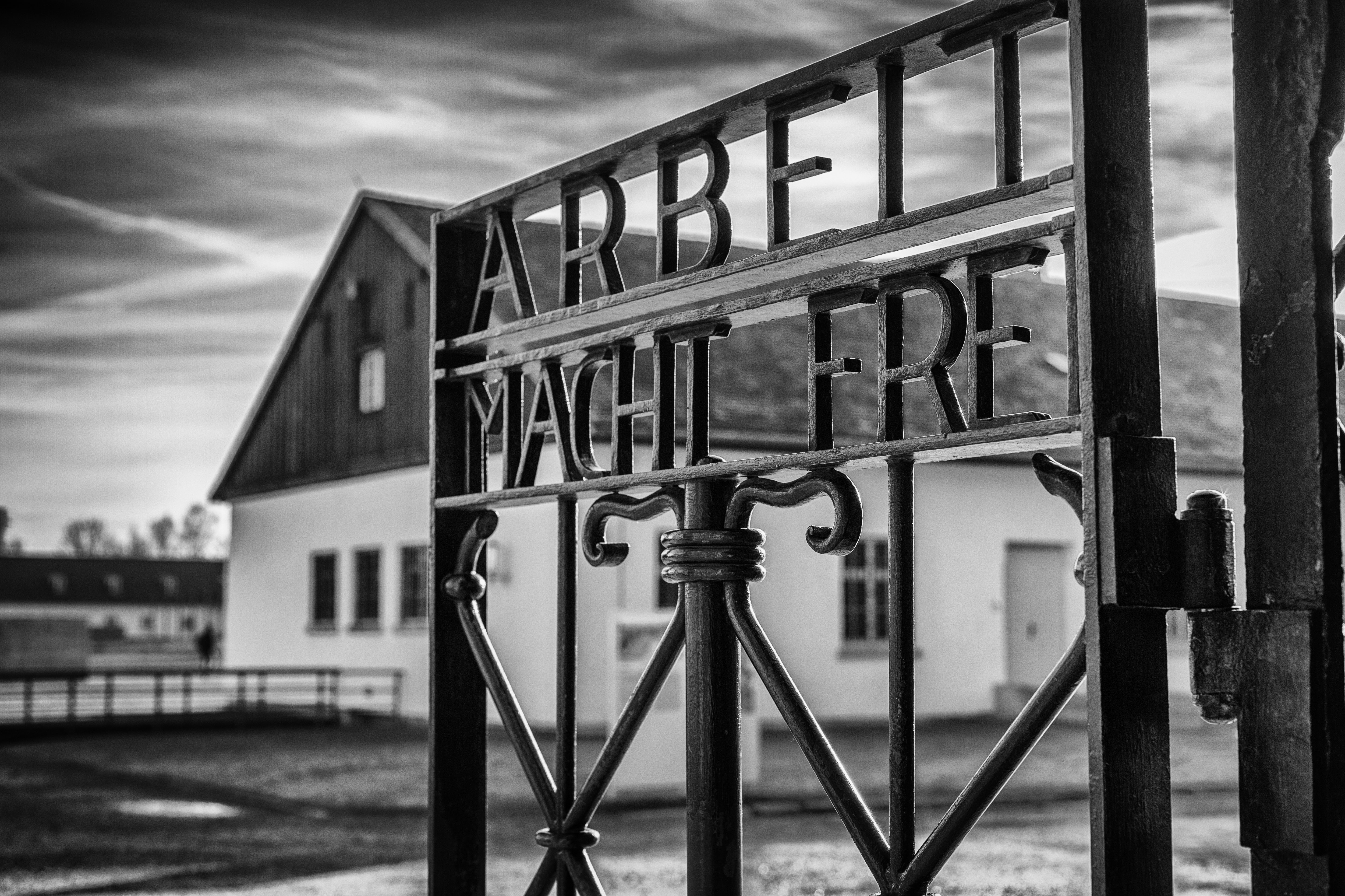 Dachau concentration camp gate, reading "Arbeit Macht Frei".